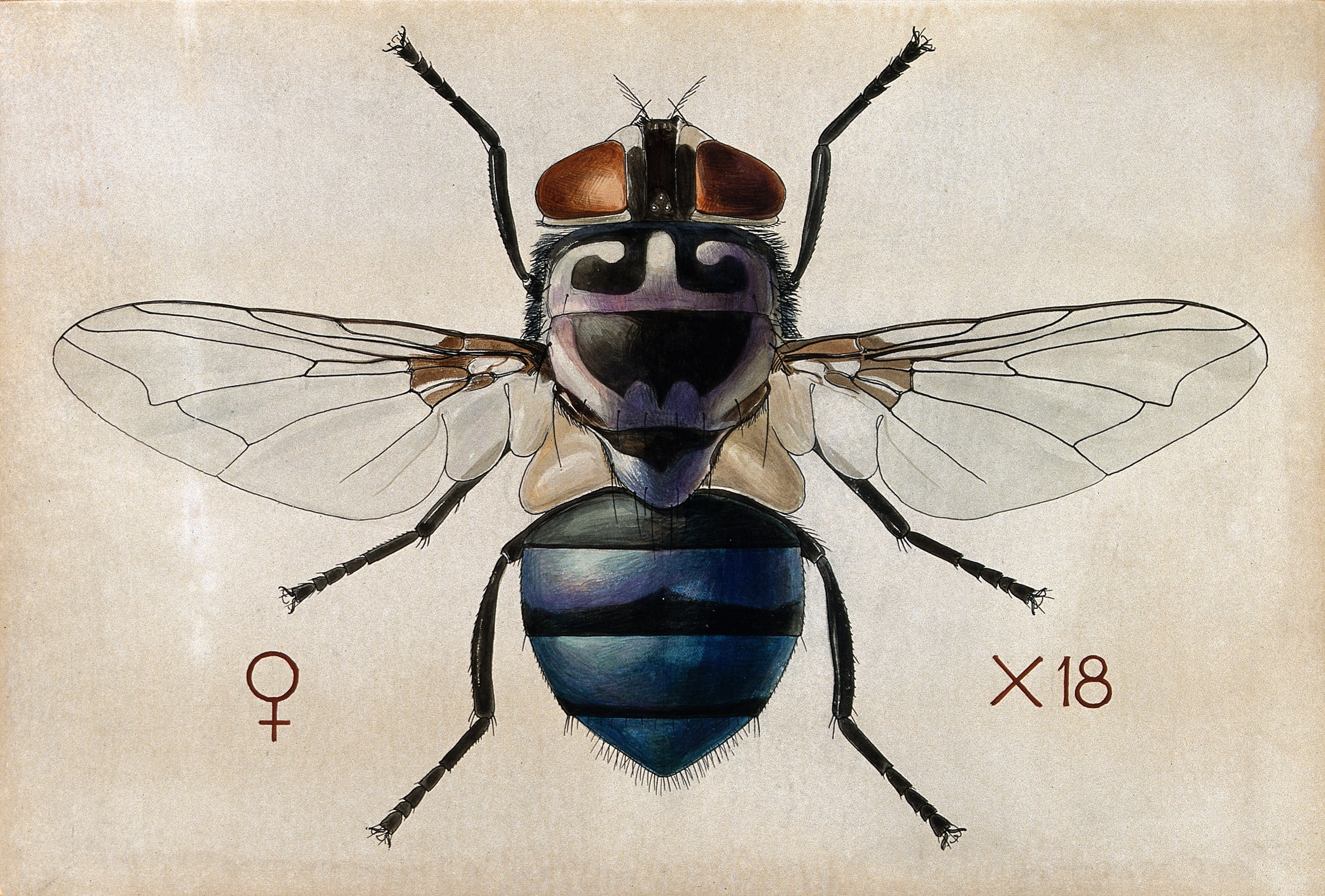 A blow fly (Chrysomya chloropyga). Coloured drawing by A.J.E. Terzi. Iconographic Collections Keywords: Amedeo John Engel Terzi